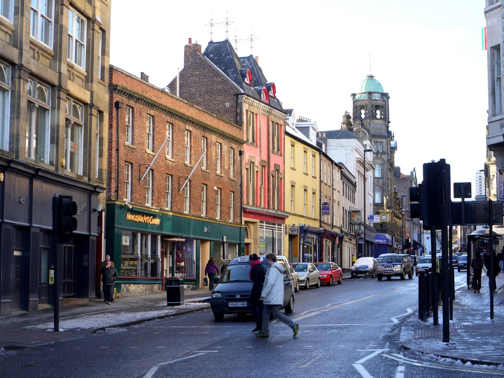 Westgate Road from junction with Fenkle Street